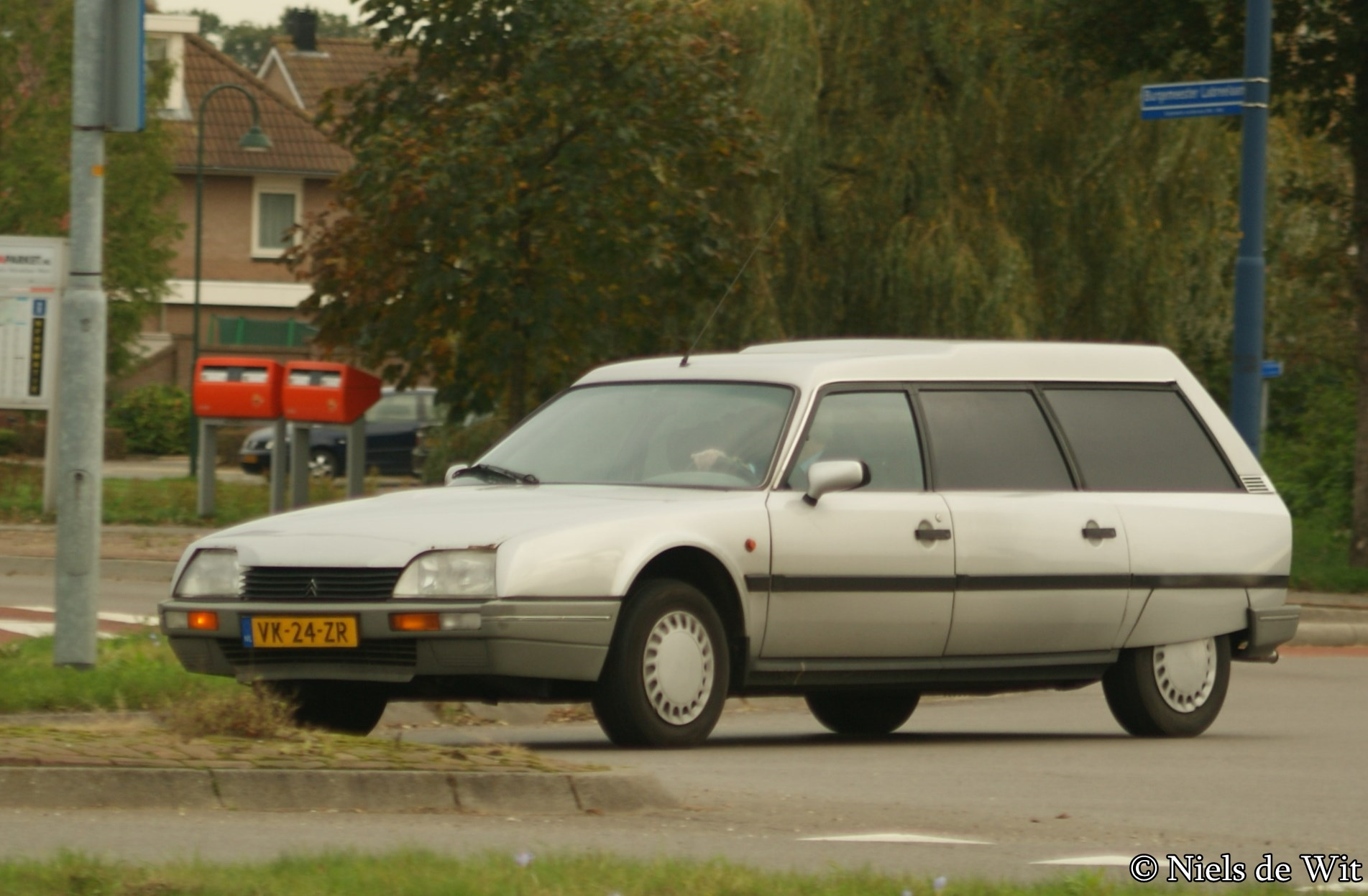 VK-24-ZR Still from the first owner!